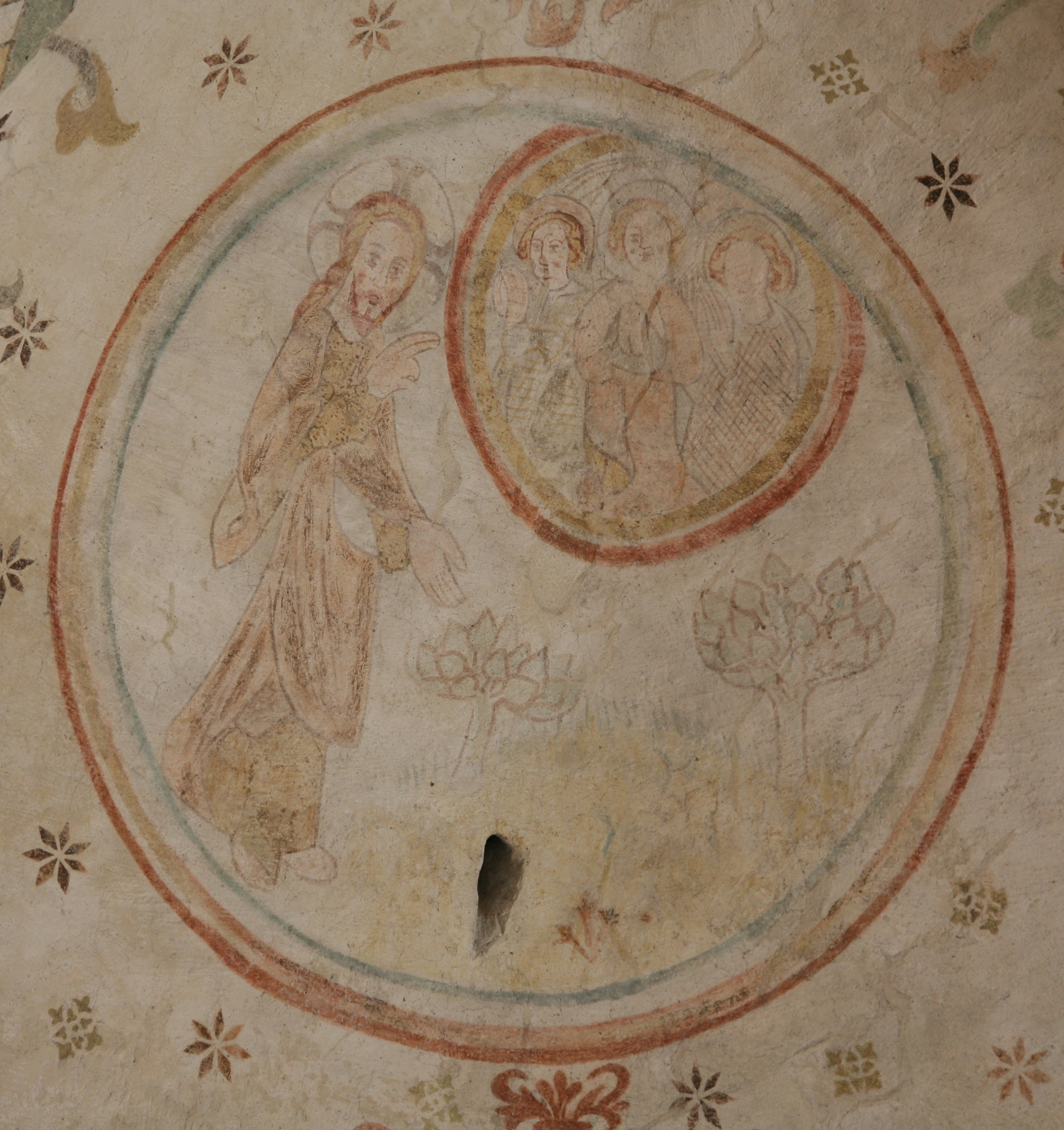 Fresco in Vester Broby kirke - a village church south of Sorø in Denmark